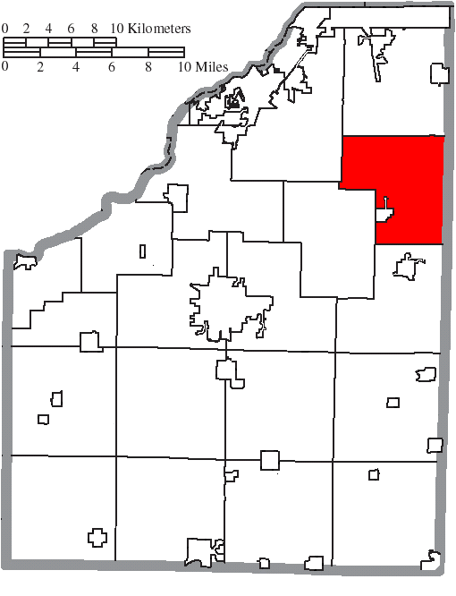 Map of the municipal and township boundaries of Wood County, Ohio, United States, as of the 2000 census, with the location of Troy Township highlighted. Township borders are shown only in unincorporated areas in order to differentiate incorporated and unincorporated areas more clearly.